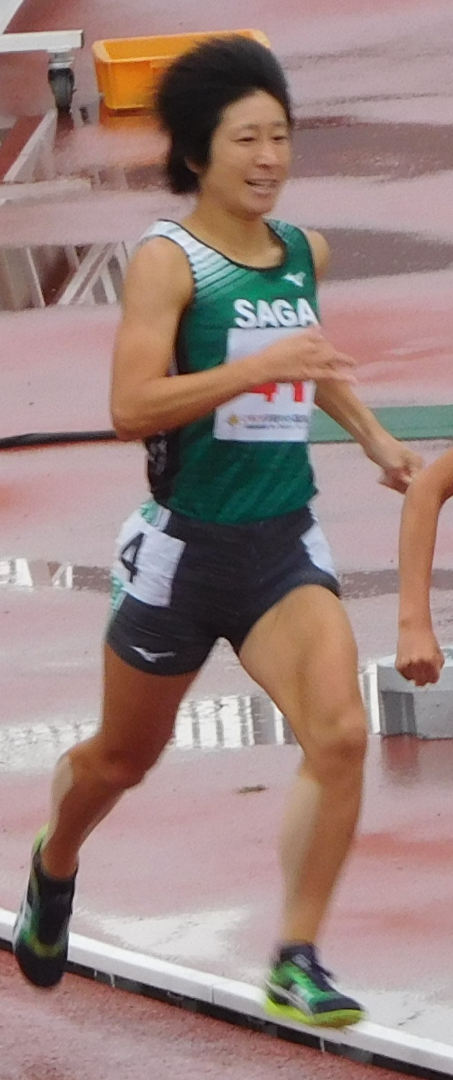 Ayako Jinnouchi is running at the 74th National Sports Festival of Japan.